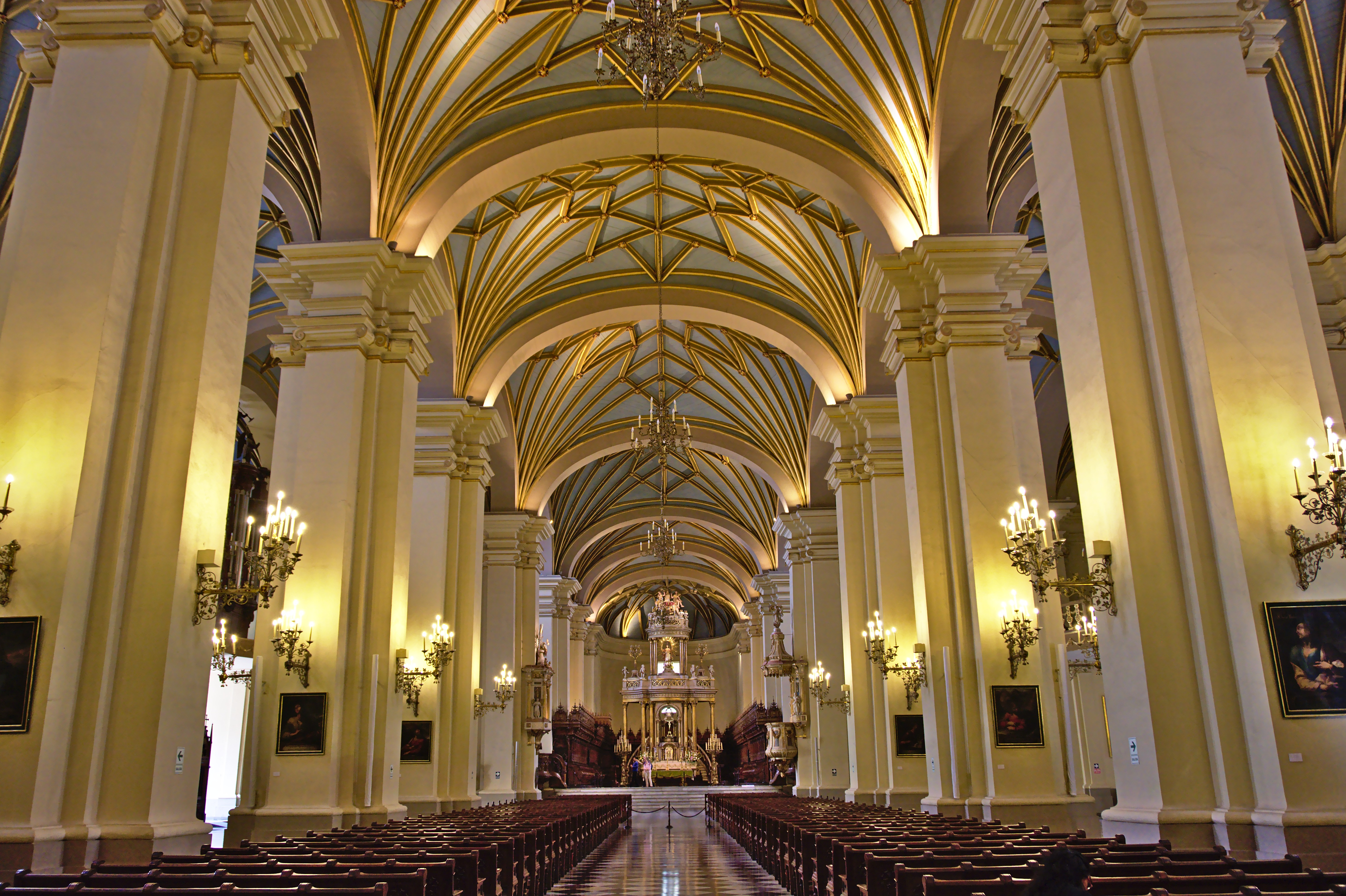 Nave of Catedral de Lima, centre of Lima, Peru